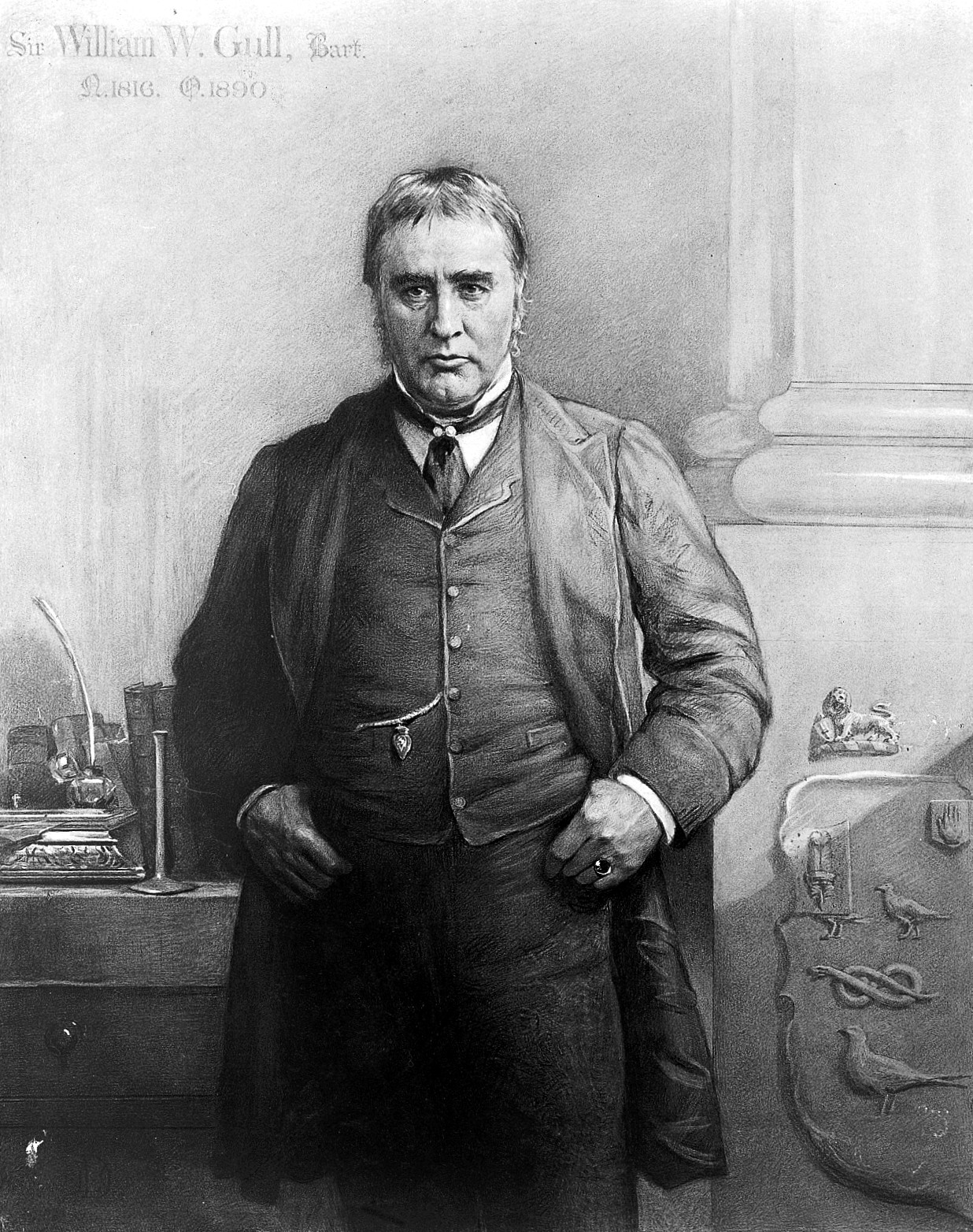 Sir William Withey Gull. Photogravure by Duclaud after Elliot & Fry. Wellcome Images Keywords: William Withey Gull